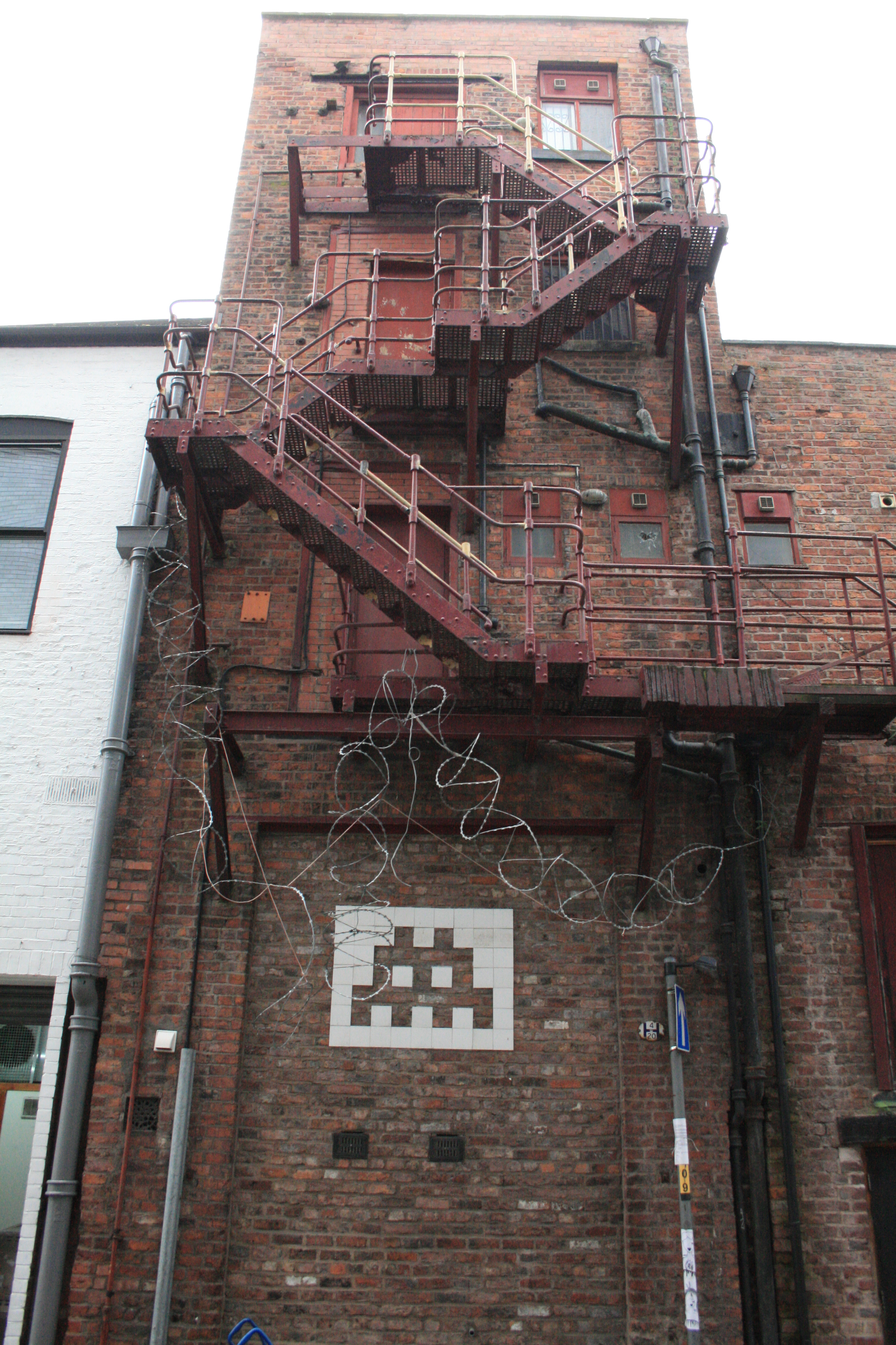 A mosaic installation by French artist "Invader" on Faraday Street in Manchester.